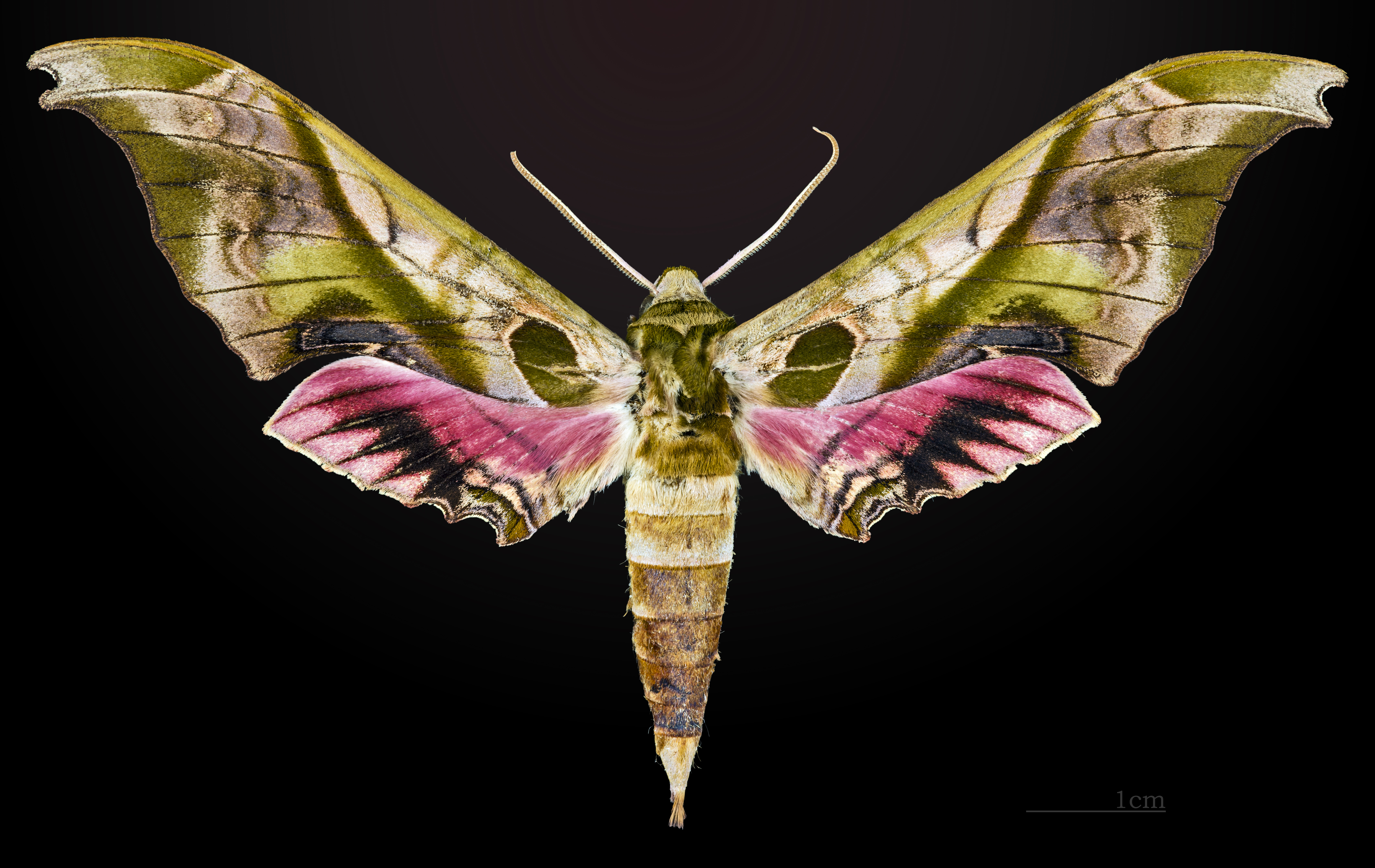 Adhemarius donysa - Dorsal side Collection of the Mathematician Laurent Schwartz